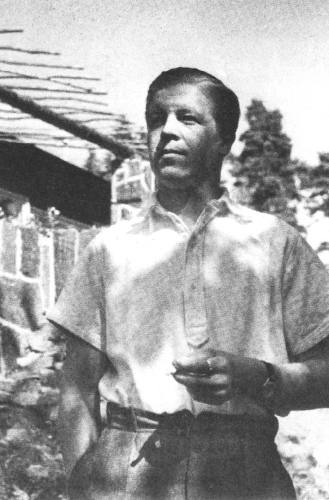 Photograph of the Finnish architect and athlete Ilmari Niemeläinen (1910–1951).